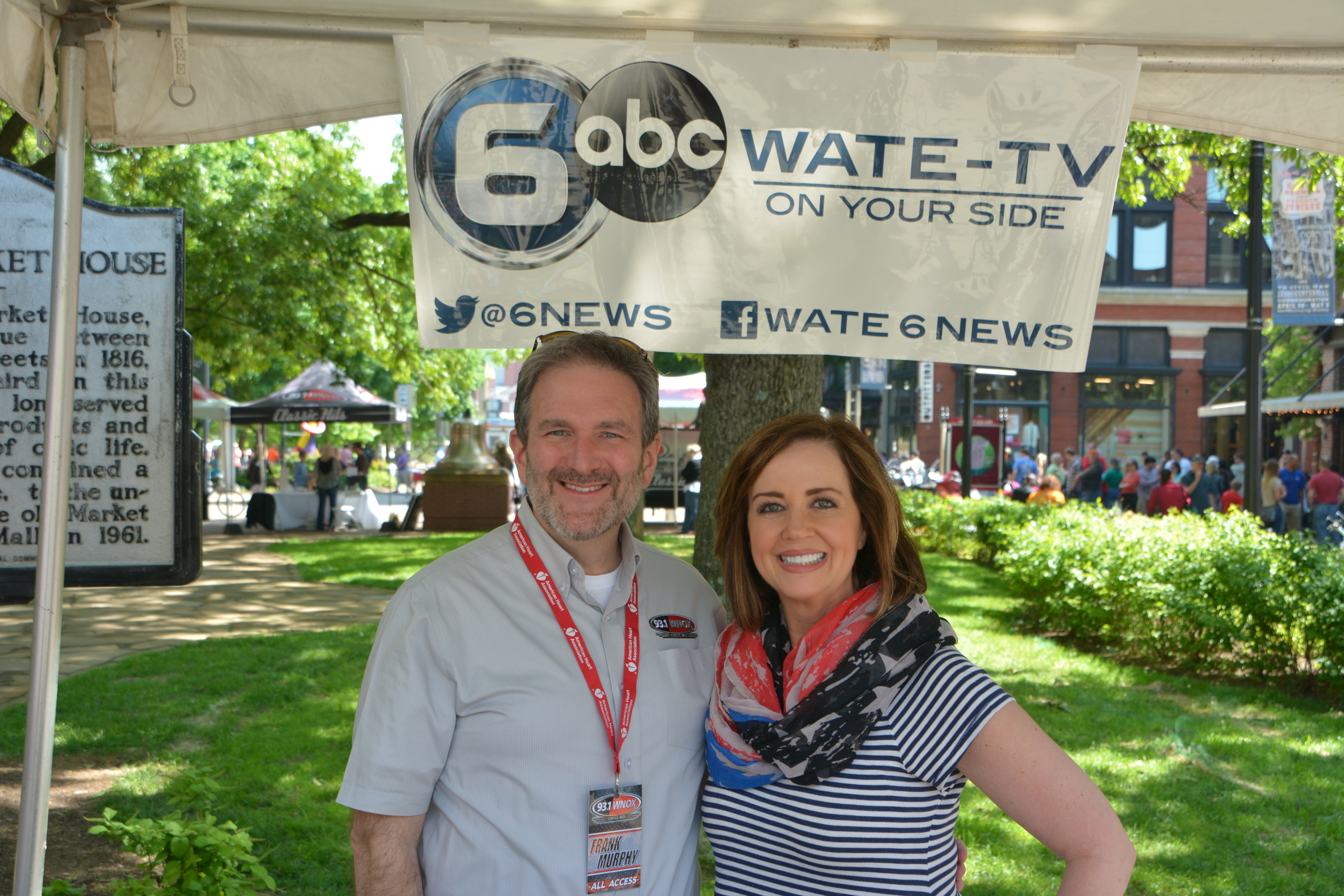 Frank Murphy with award winning news reporter/anchor Lori Tucker at Rossini Festival on 04/25/2015